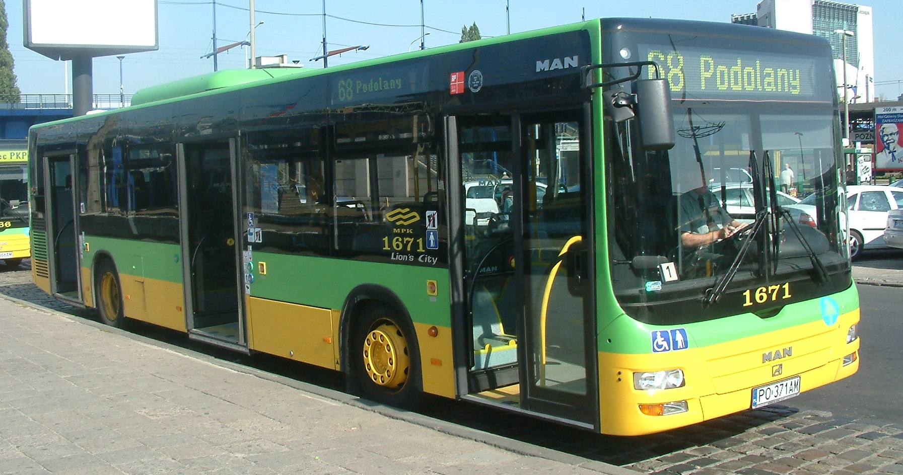 MAN NL263 Lion's City (#1671) in Poznań, Poland. Built 2006. MPK Poznań operator.